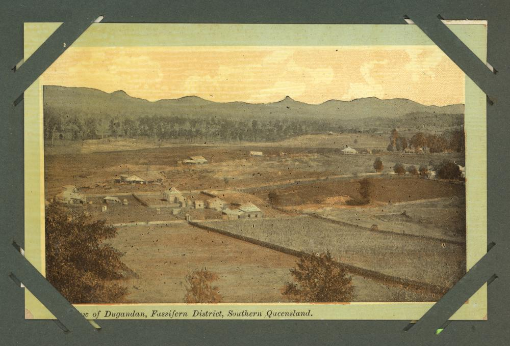 Town of Dugandan in the Fassifern district in Southern Queensland, ca. 1907. Postcard made to promote Queensland at the Franco-British Exhibition in 1908. Notes printed on the back of the postcard read,: The total of maize production in Queensland during 1906 was 3,7009274 bushels.